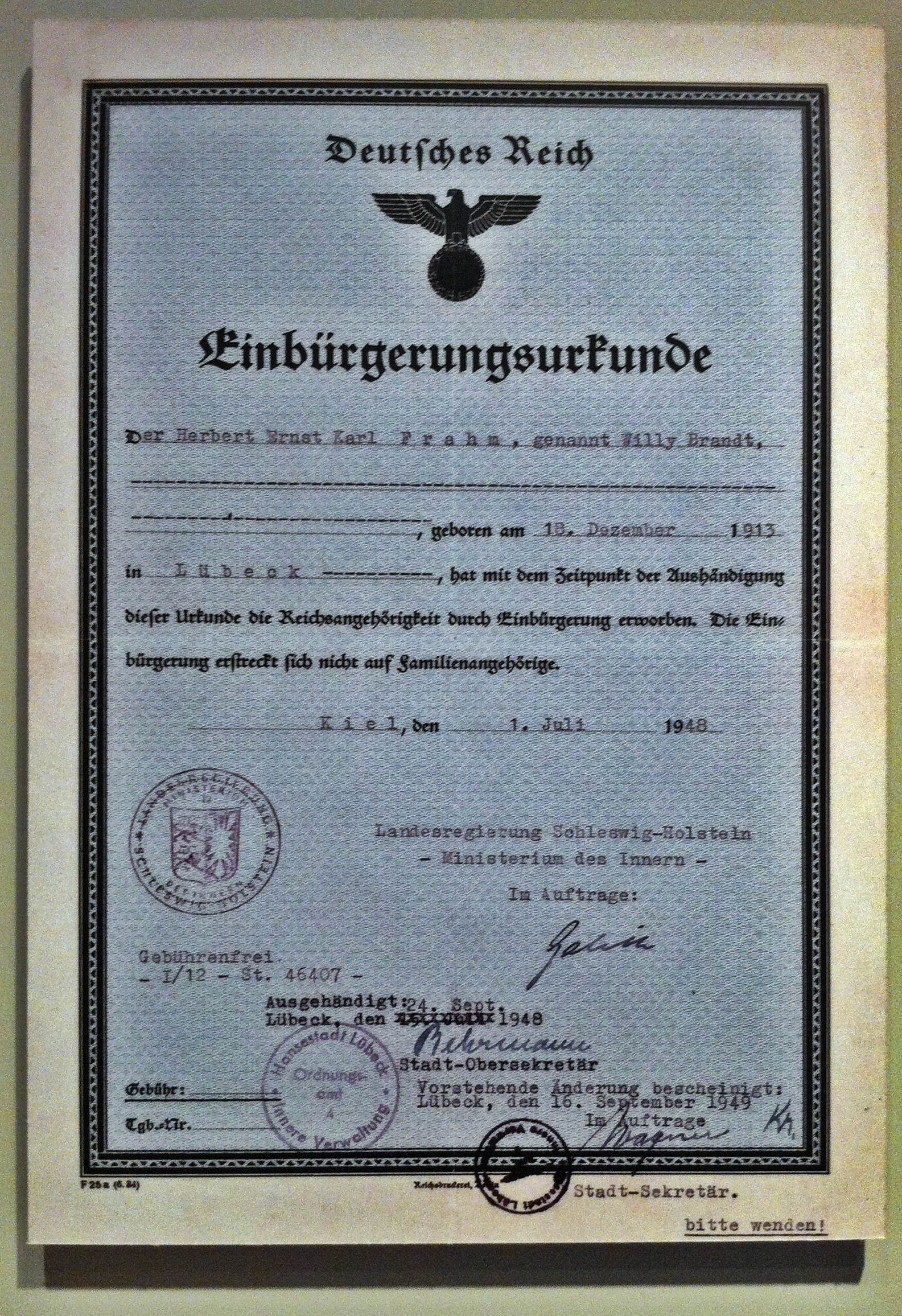 German naturalization certificate for Herbert Frahm/Willy Brandt